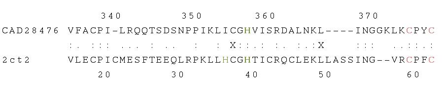 This picture shows a local sequence alignment between CAD28476 and the related structure of the RING domain of the Tripartite motif protein 32 (PDB: 2ct2).